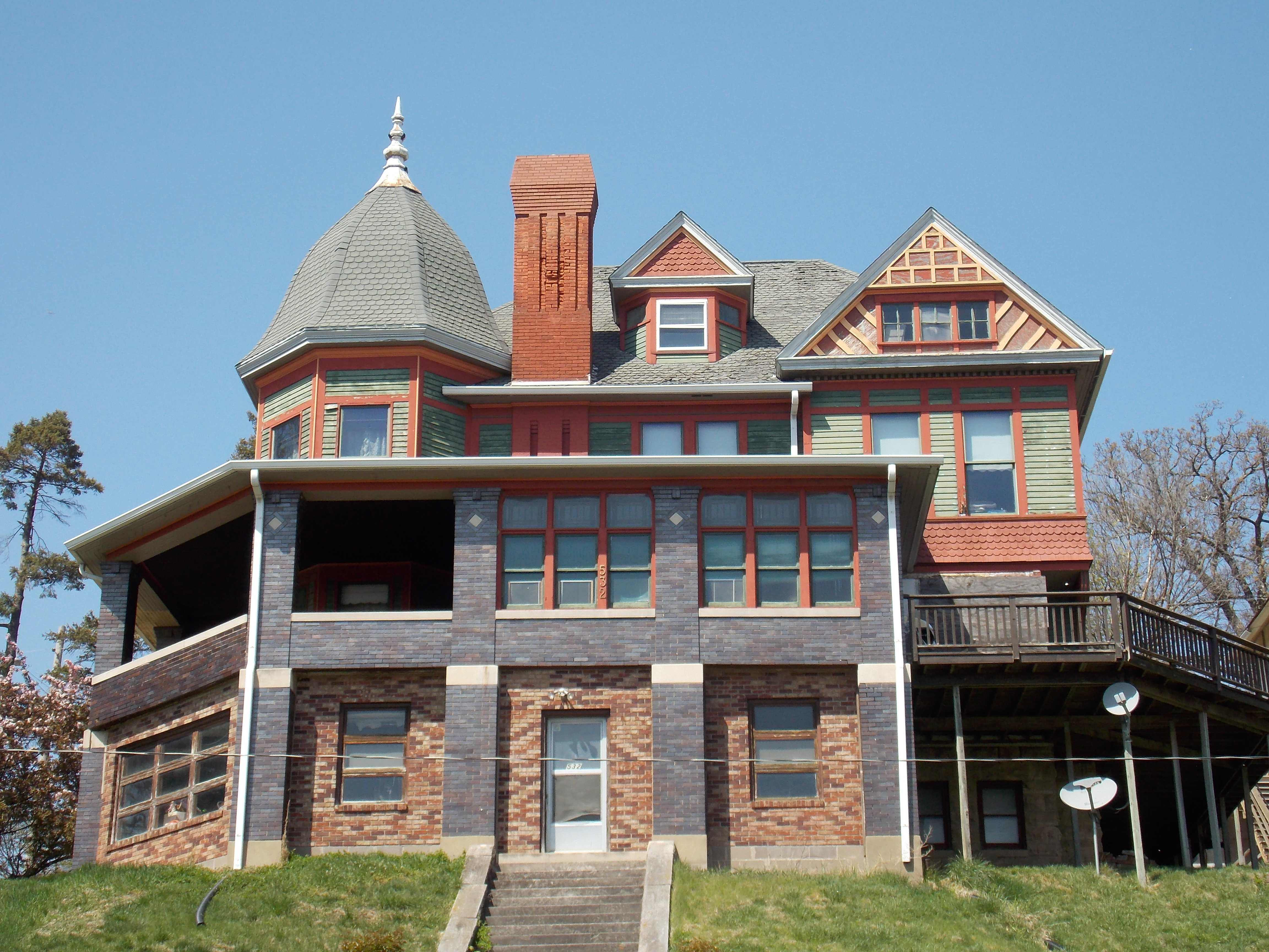 The A. J. Hirschel House in Davenport, Iowa is a contributing property in the Hamburg Historic District.